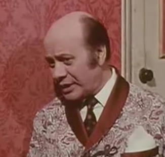 screenshot from the film Un caso di coscienza (1969)